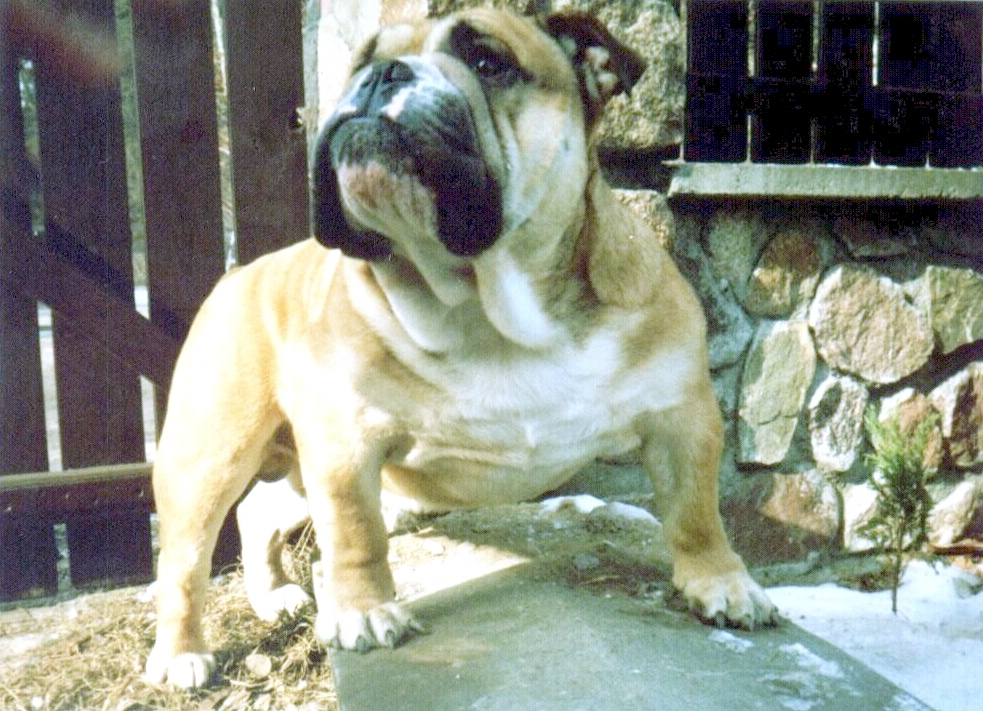 Bulldog preparing himself to the expo in Łódź, Poland